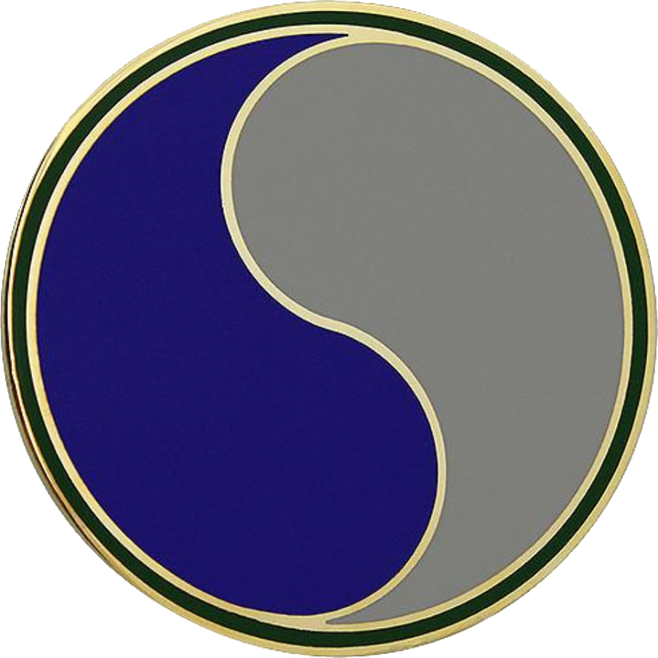 29th Infantry Division CSIB